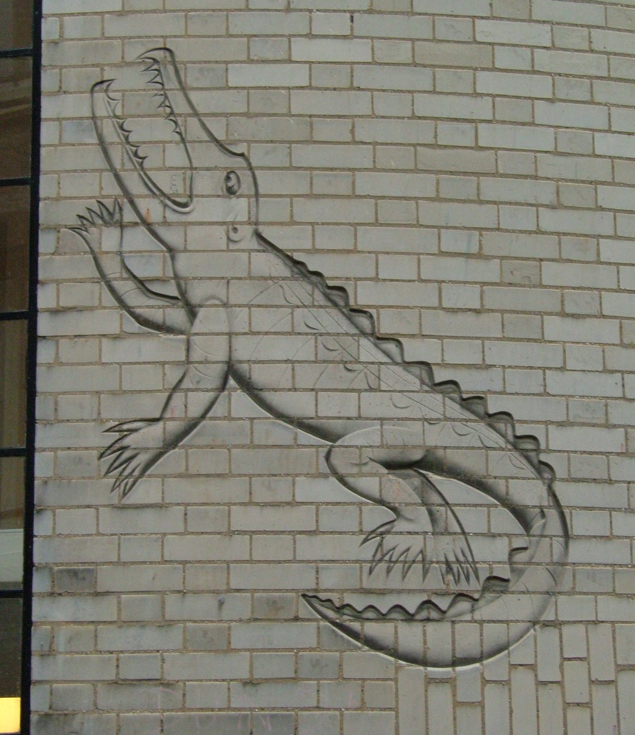 Rutherford's crocodile on a wall of the Old Cavendish Laboratory, Cambridge, United-Kingdom, own picture